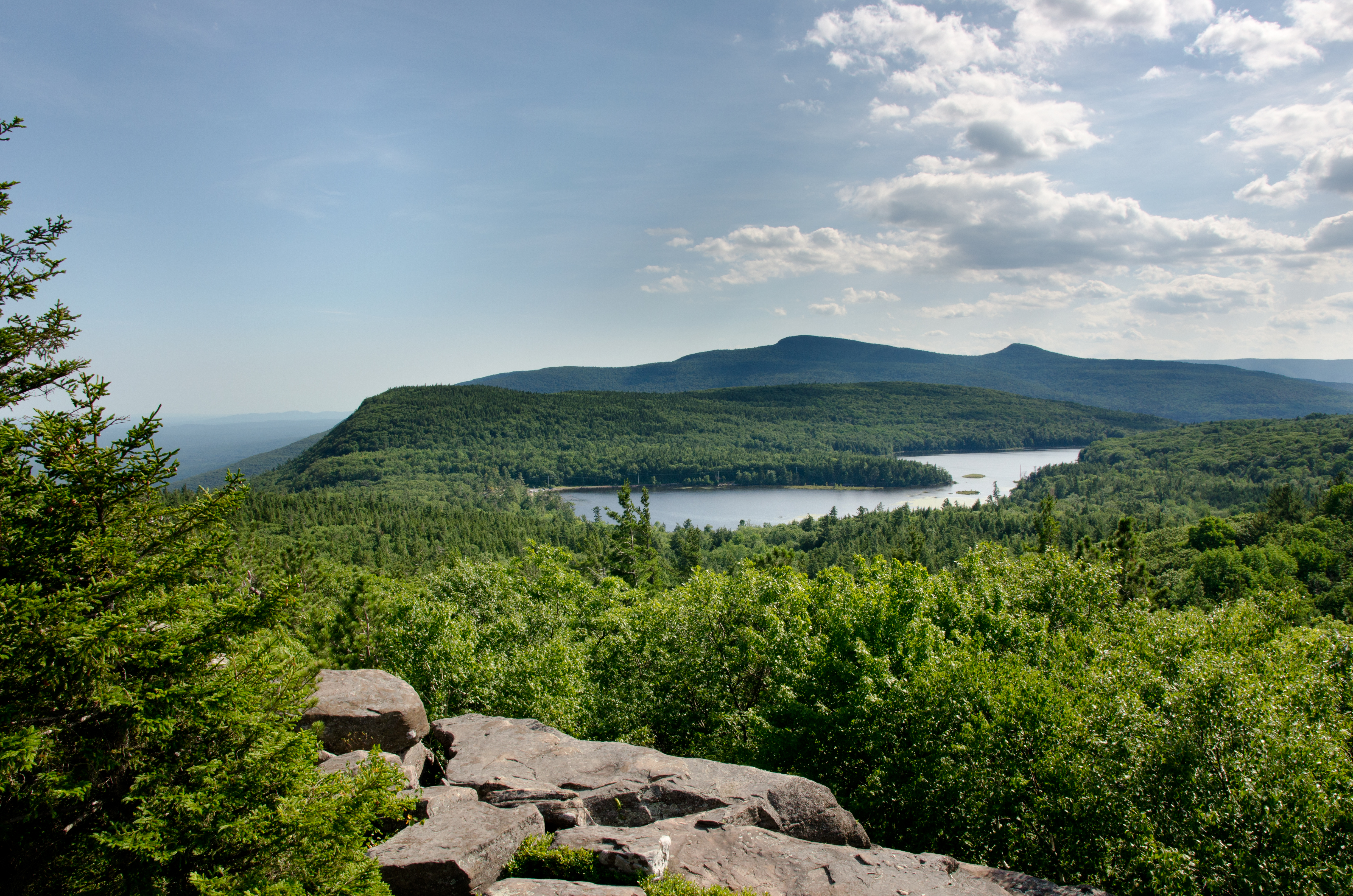 Looking west over North-South lake from Sunset Rocks.